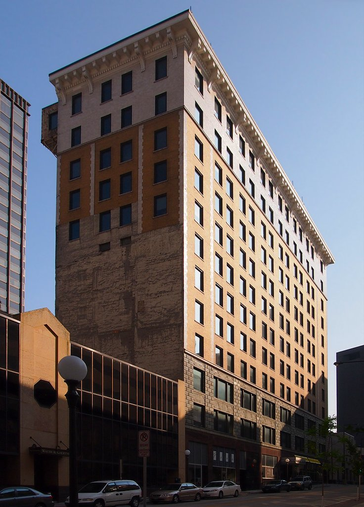 Commerce Building, St Paul, Minnesota, USA